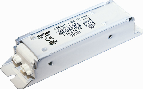 Magnetic ballast B2 Class by Energy Efficiency Index